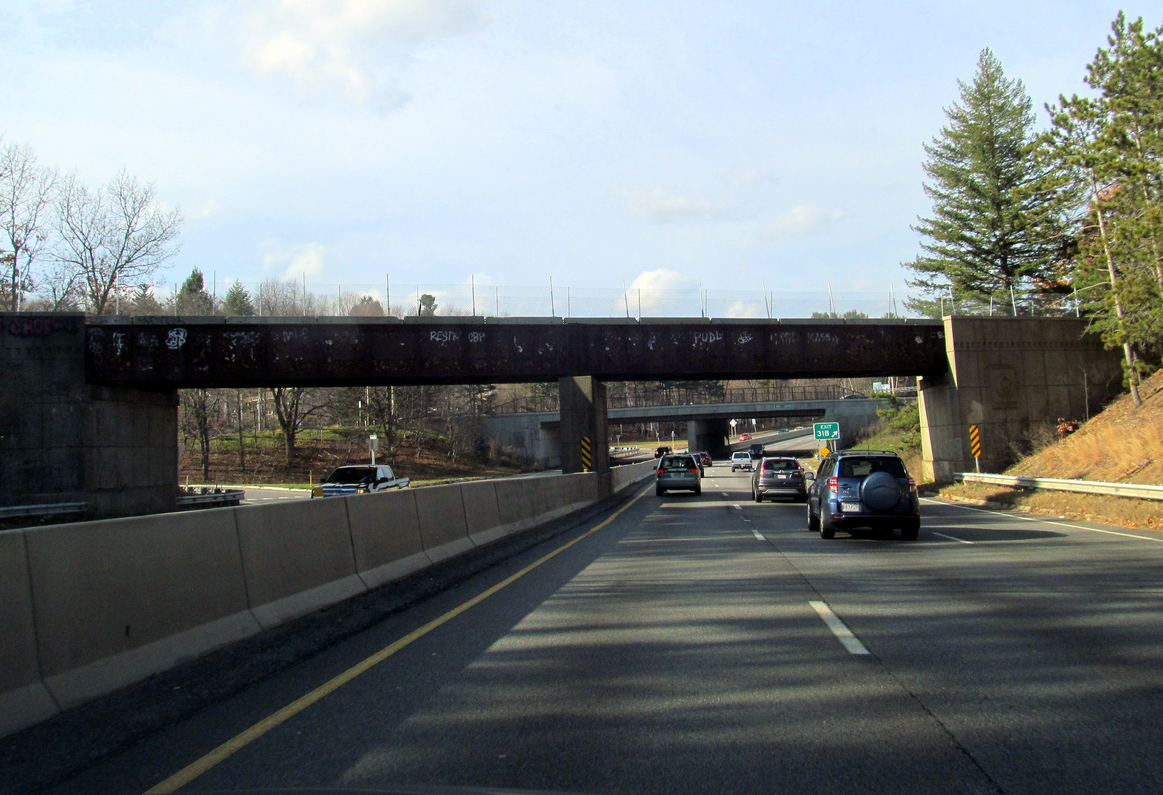 The former Framingham & Worcester Railroad bridge over Route 2 in Leominster, Massachusetts, planned for reuse as a rail trail